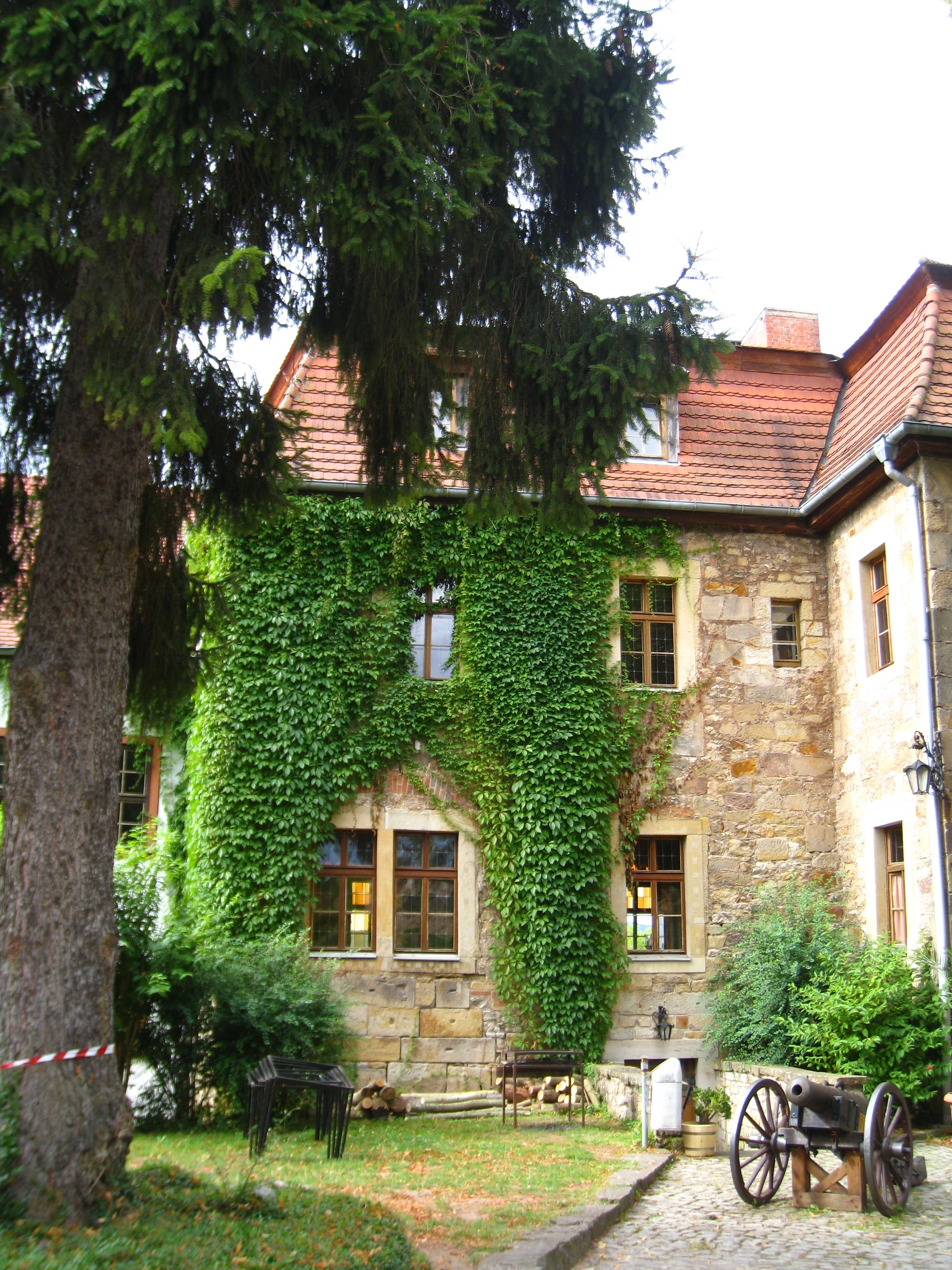 Creuzburg castle courtyard, Thuringia, Germany